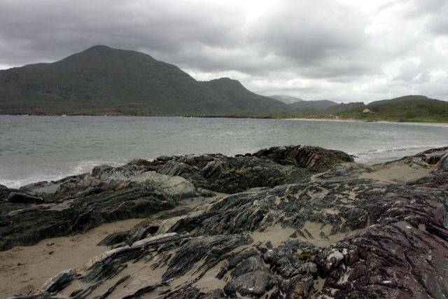 Taken from the beach near Glassillaun, County Mayo, Ireland, looking east across a narrow headland that divides Killary Bay Little and Killary Harbour. This is a glaciated landscape, and Killary Harbour itself is a fjord. In the foreground of this shot you can see evidence of glacial action in the striations on the rocks. In the background are the Mweel Rea mountains.